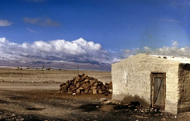 Pamir near the lake Karakul